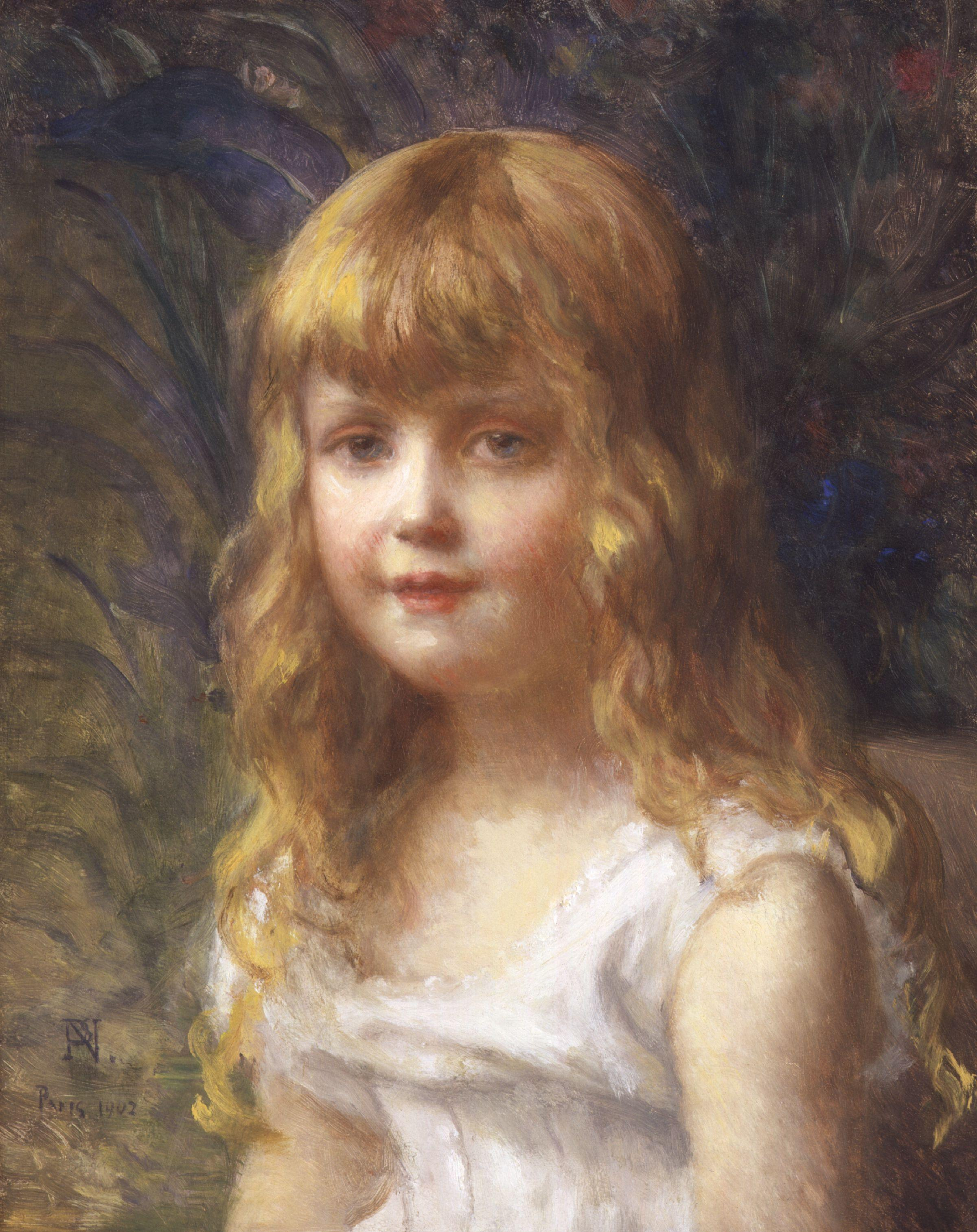 All images in this batch have been hand-evaluated for evidence that the artist probably died before 1939. Other sources [1] say Parisani died in 1932.